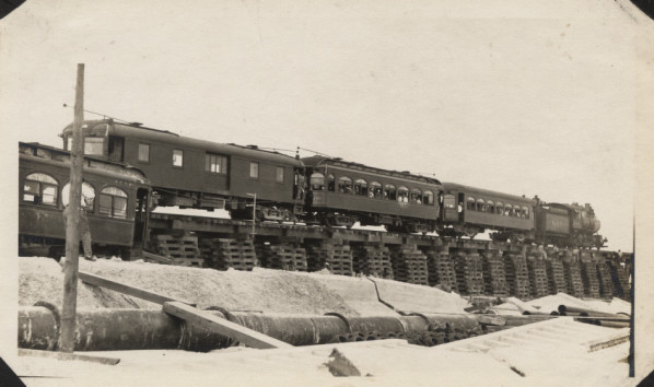 Interurban train with passengers crossing temporary trestle after 1915 Galveston Hurricane